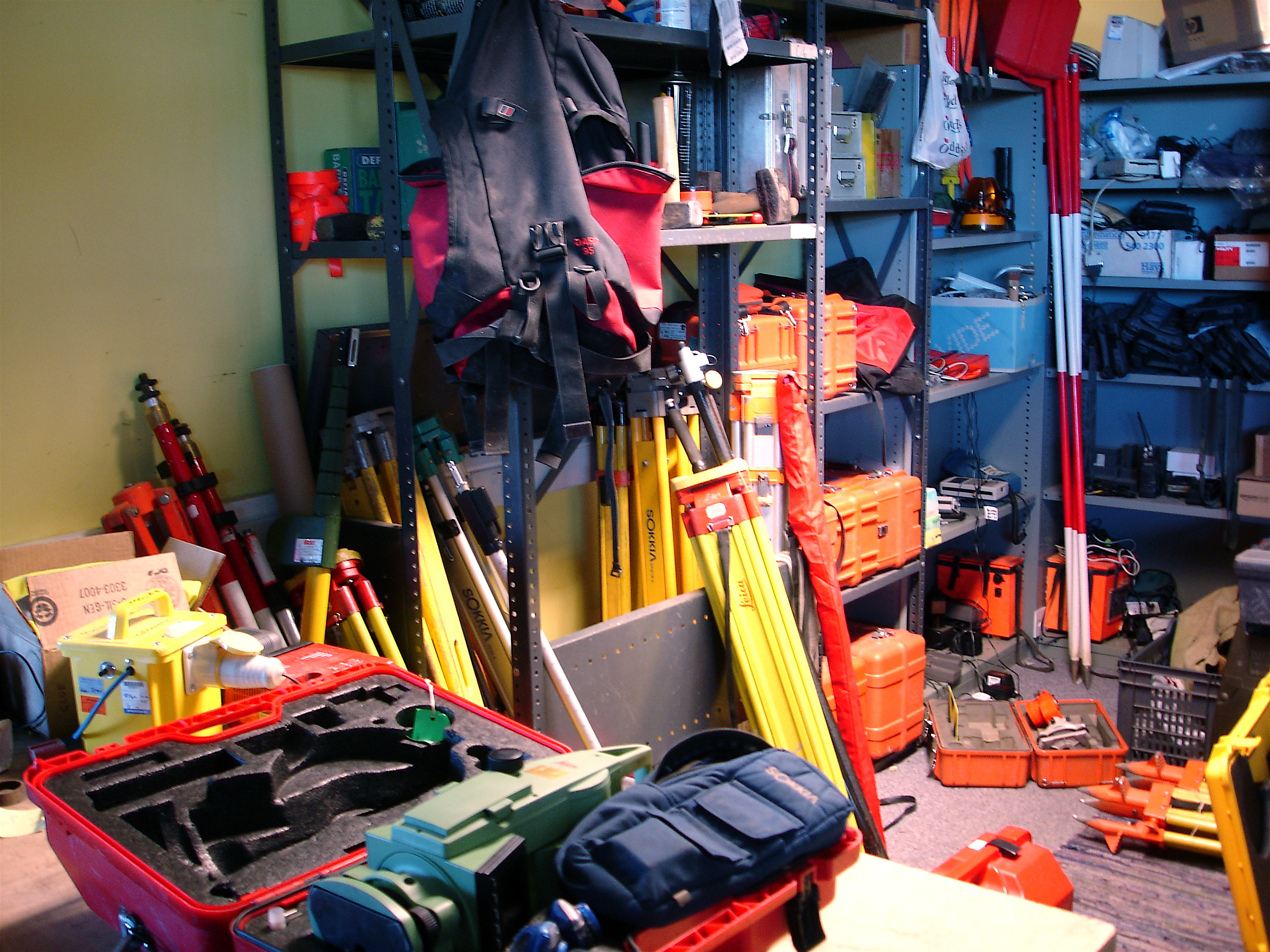 survey gear